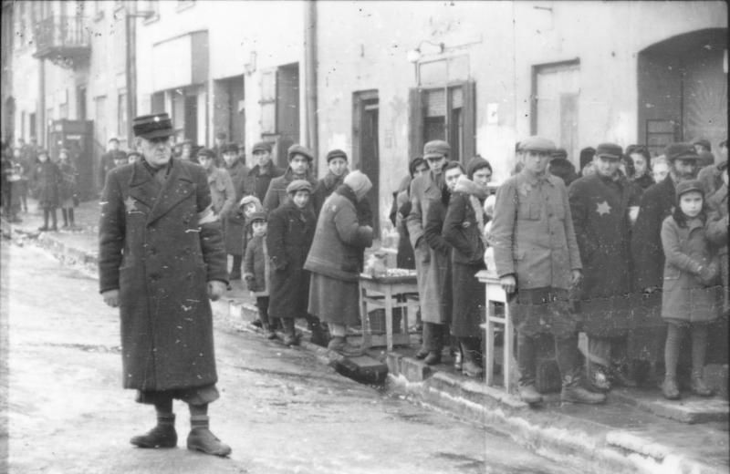 Litzmannstadt Ghetto. Policeman of jewish order police at Altmarkt (Old Market) in previously named Litzmannstadt (Lodz city).